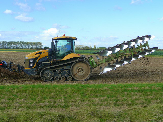 Impressive equipment near to Leverton Lucasgate, Lincolnshire, Great Britain. Showing the reversible plough and extendable front weighting system on a Caterpillar Challenger machine.